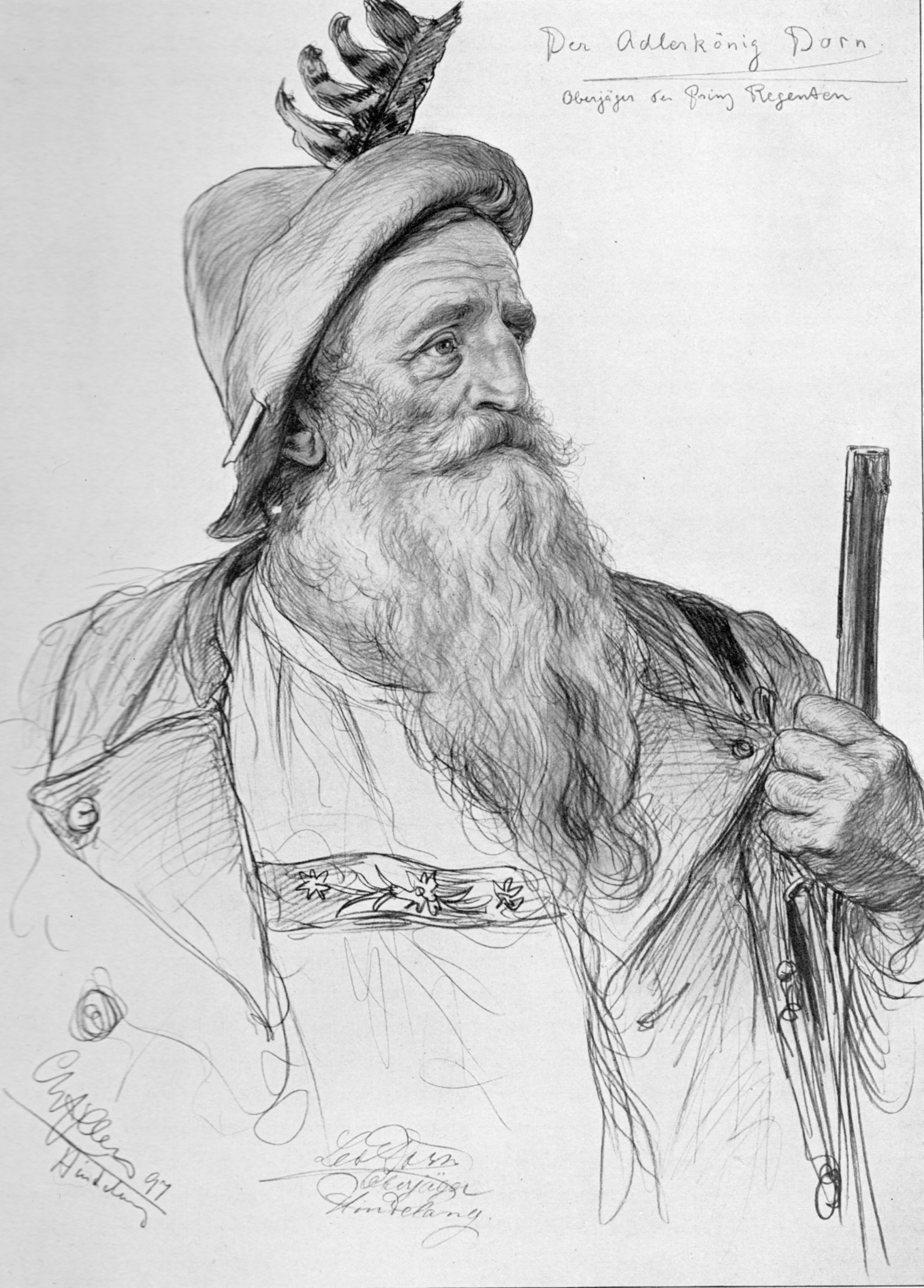 Eagle hunter Leo Dorn.